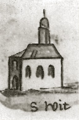 St. Vitus church in Staré Město (Uherské Hradiště district)